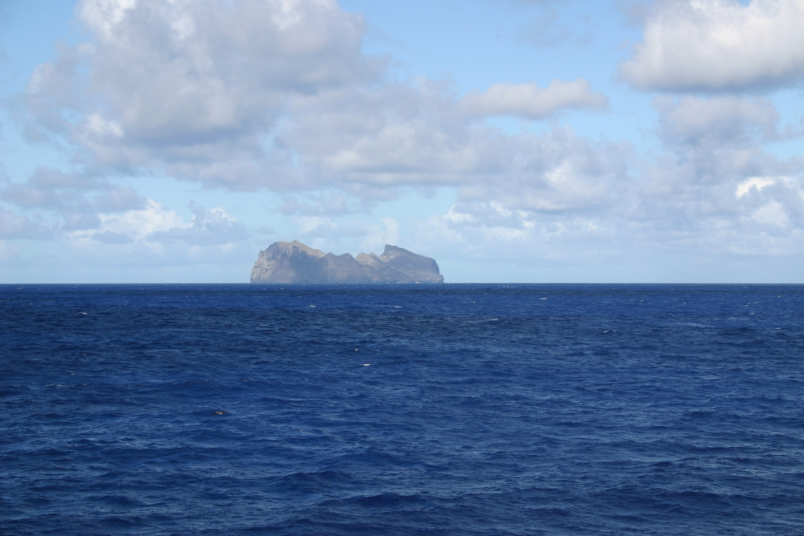 Nihoa Island, Northwestern Hawaiian Islands